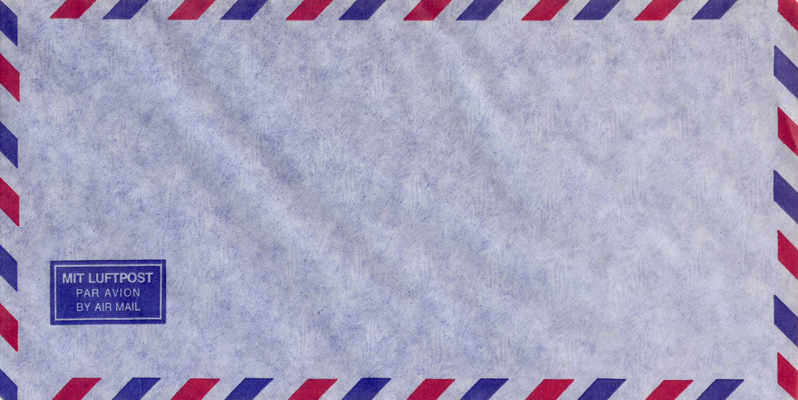 Luftpostumschlag date: 17.07.2005 by: Christoph Hoffmann